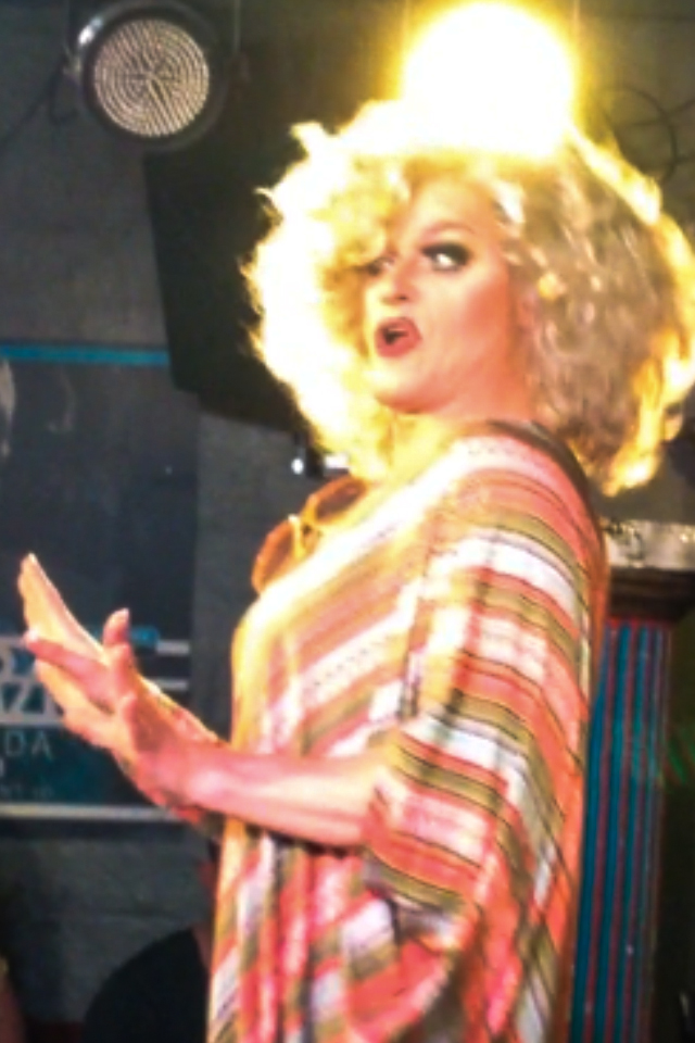 This is a photo of Panti.